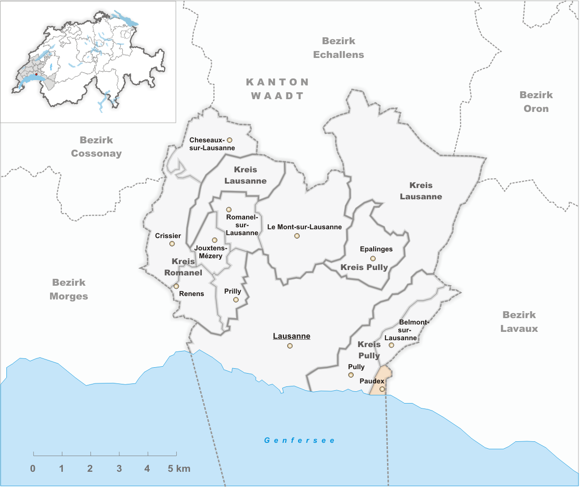 Municipality Paudex